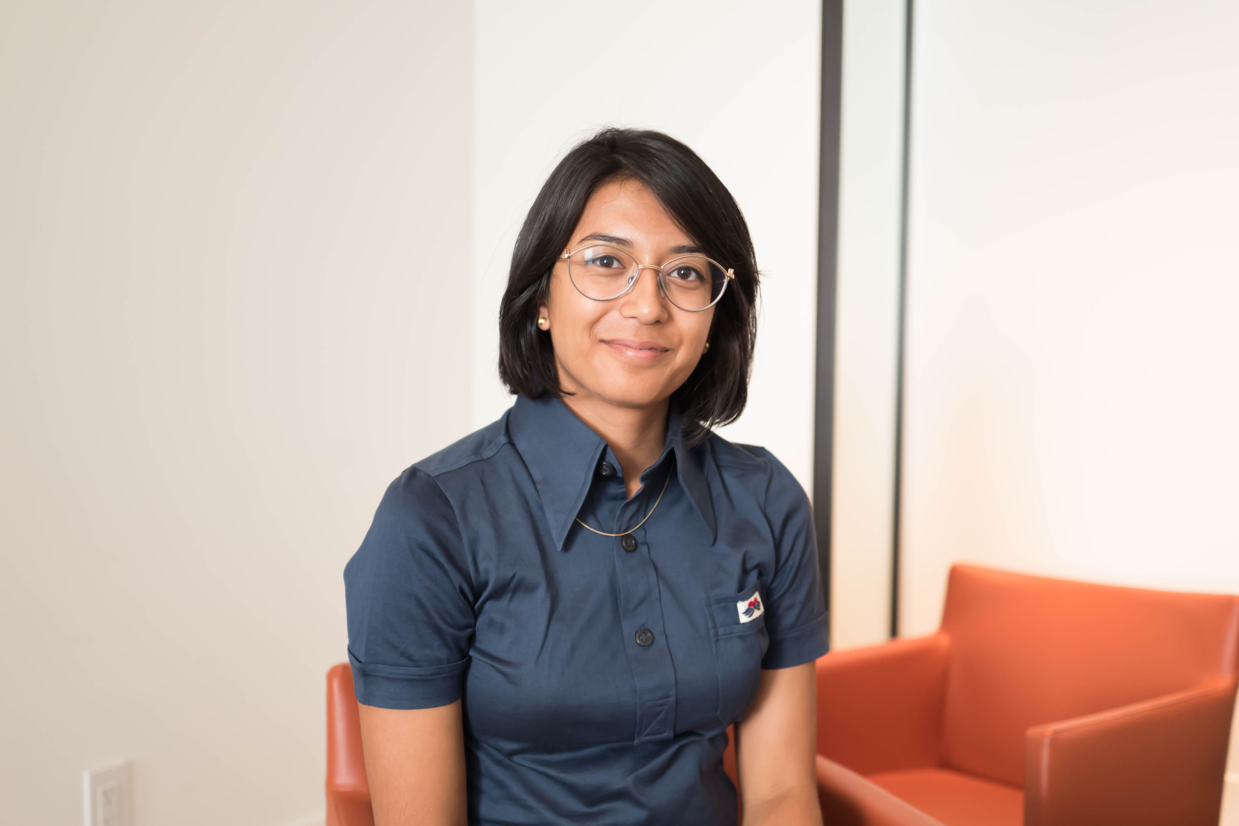 Isha Datar, CEO of New Harvest